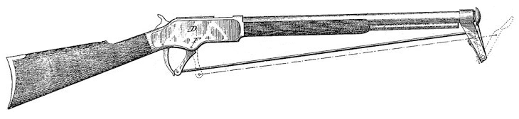 J. M. & M. S. BROWNING AUTOMATIC MAGAZINE GUN. A modified lever-action Winchester Model 73. Patented Mar. 29, 1892. U.S. Patent No. 471,782